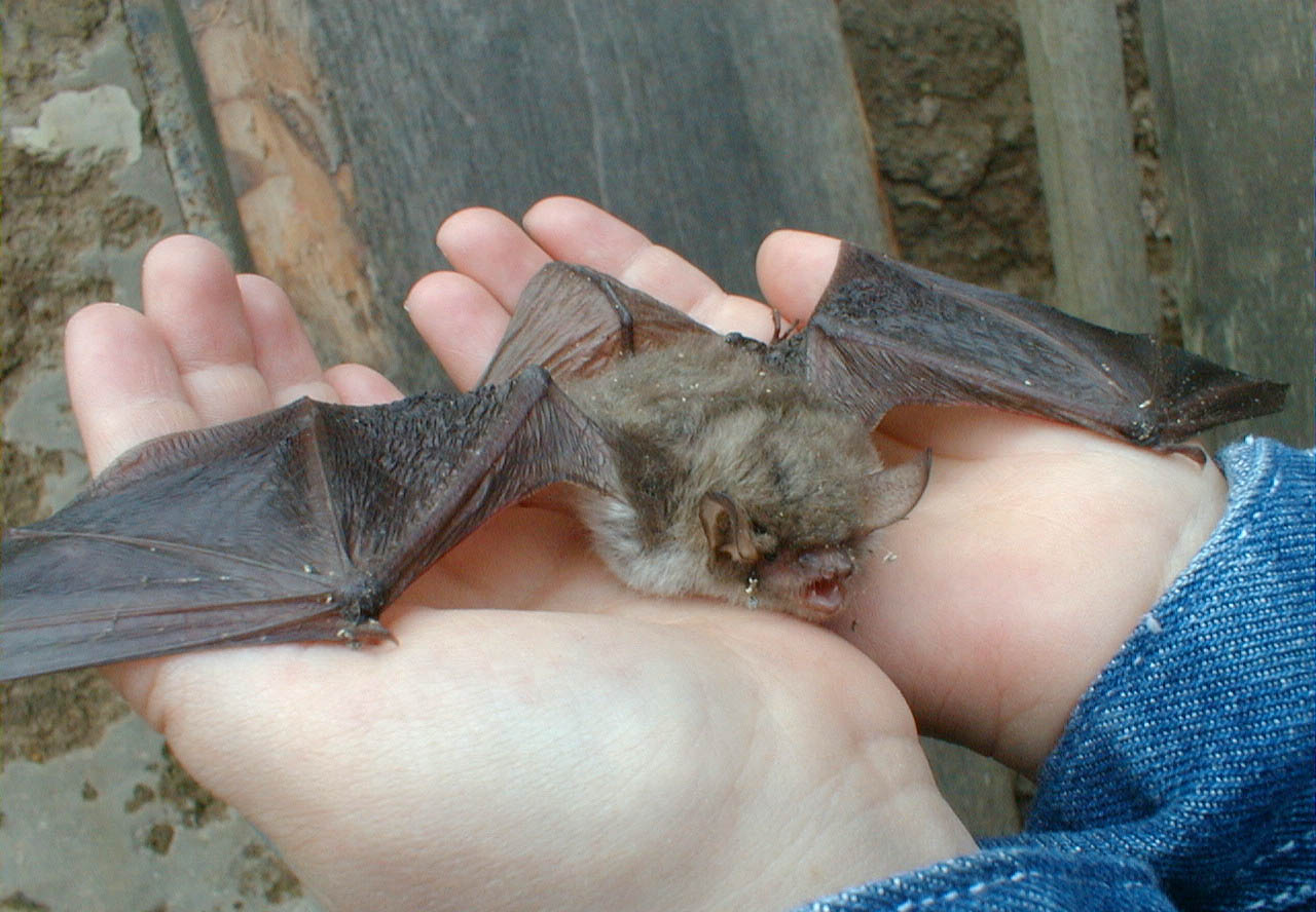 Natterer's bat (Myotis nattereri) in Bensheim (Germany).